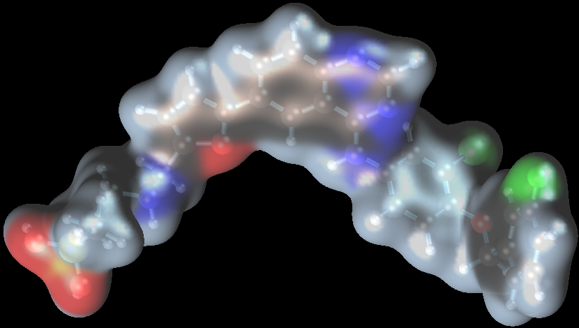 3D structure of the Lapatinib (GW572016 or Tykerb) molecule created by User:RedAndr using ViewMol3D program.